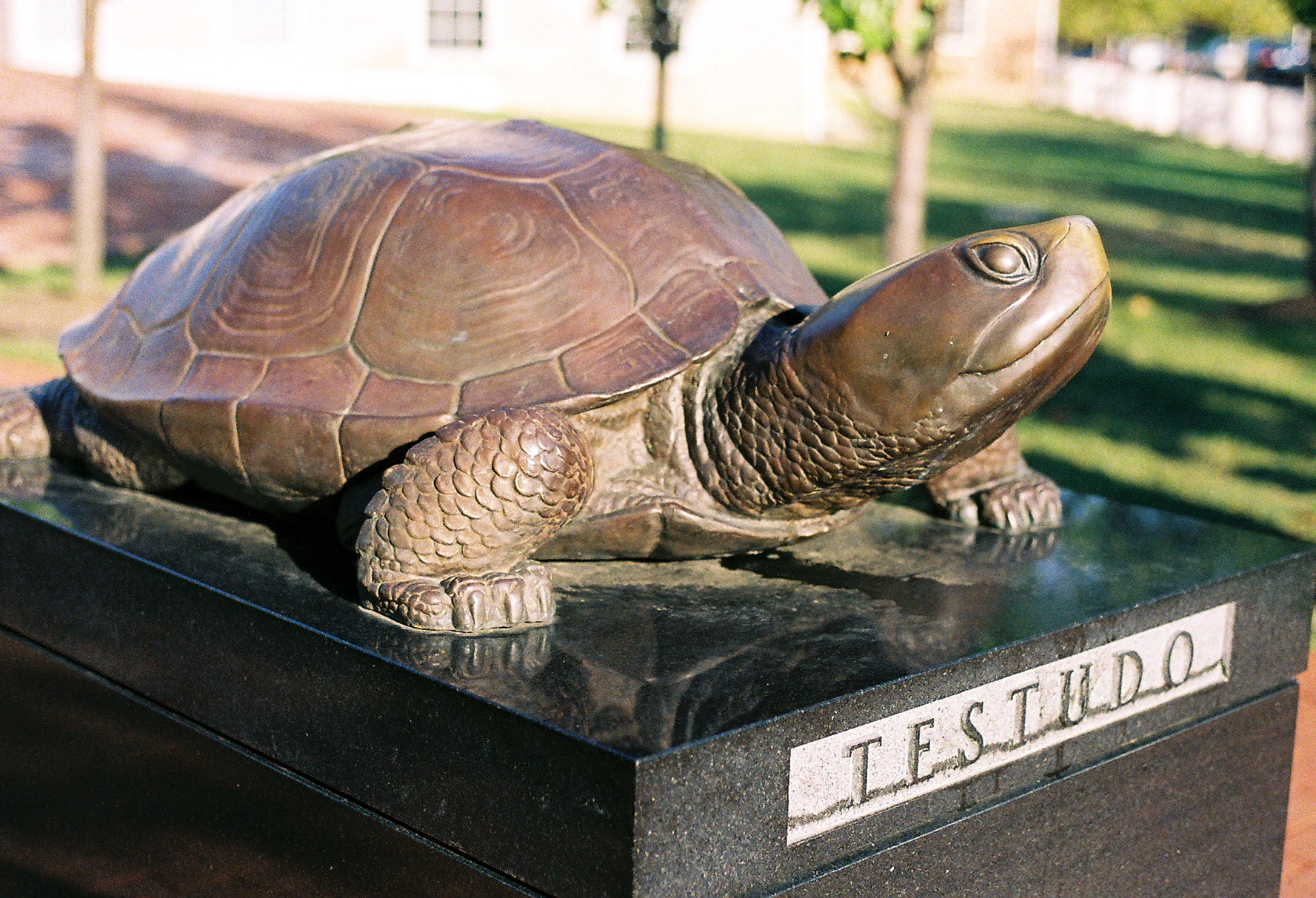 University of Maryland's terrapin as a statue near Byrd Stadium